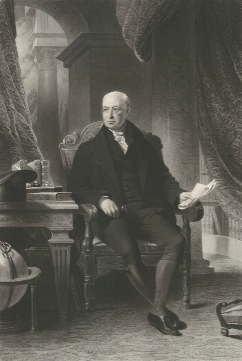 Portrait of William Robert Hay (1761–1839), British Anglican cleric and magistrate.